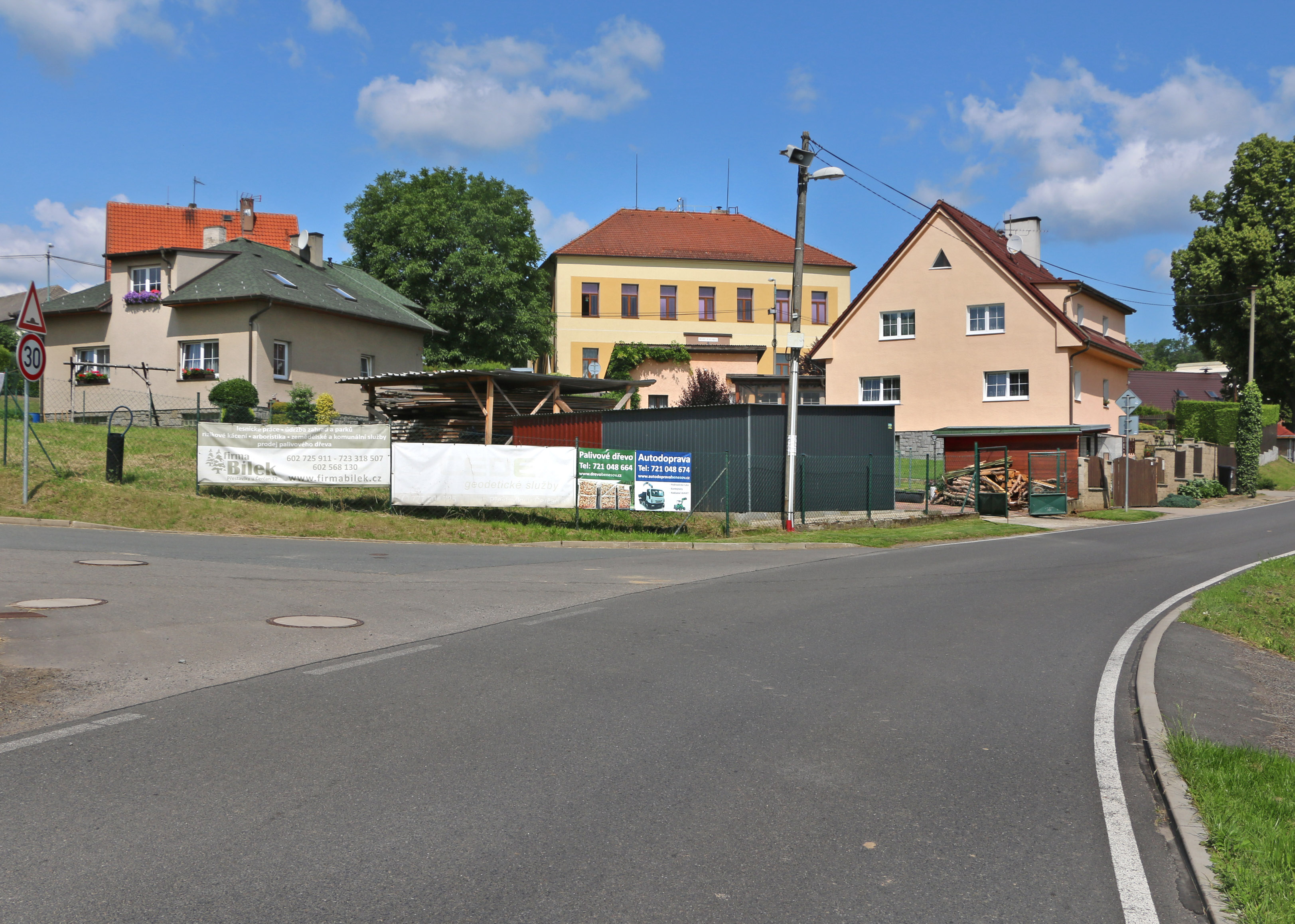 Middle part of Přestavlky u Čerčan, Czech Republic.